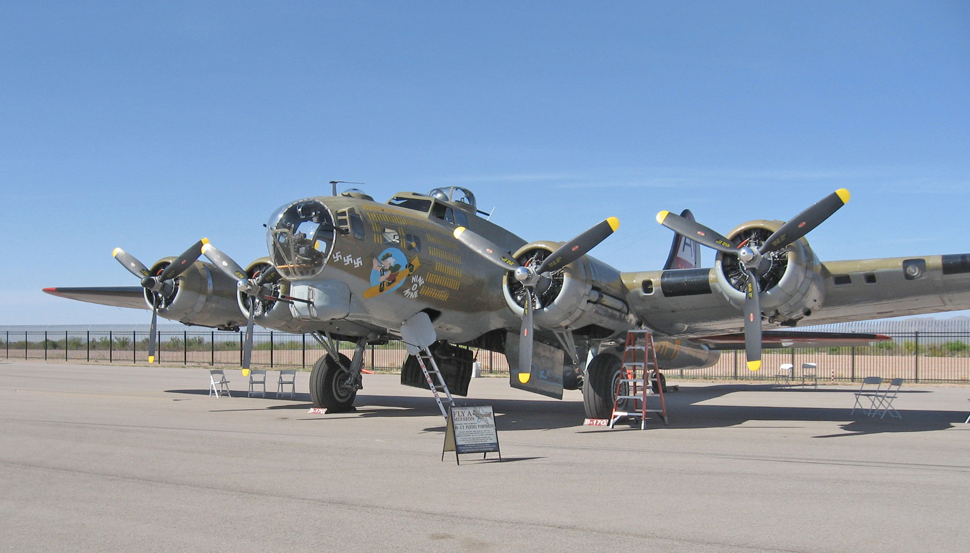 The "909" in Marana AZ, April 15, 2011